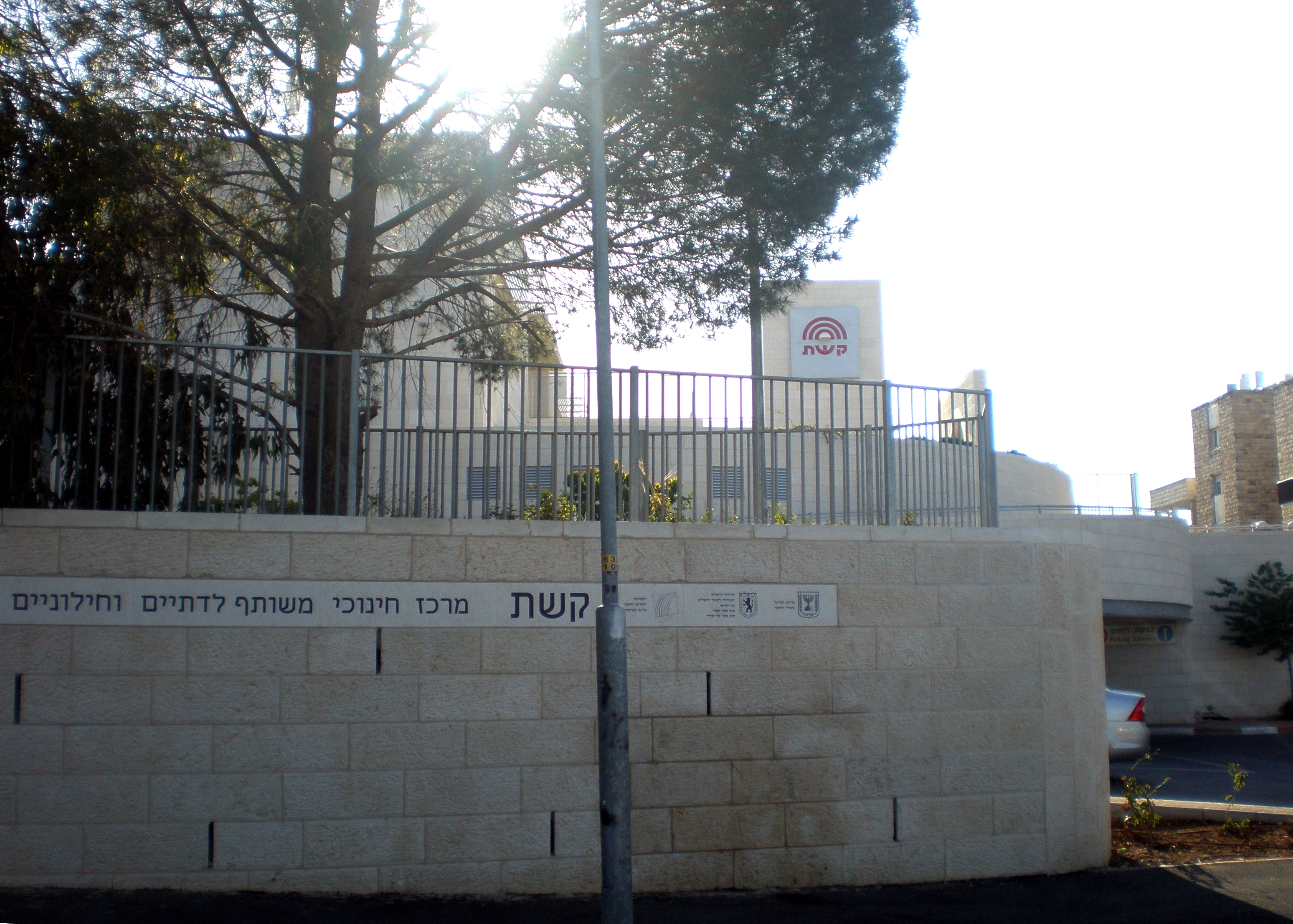 Jerusalem, 23 Alexandrion street, Keshet "קשת" school